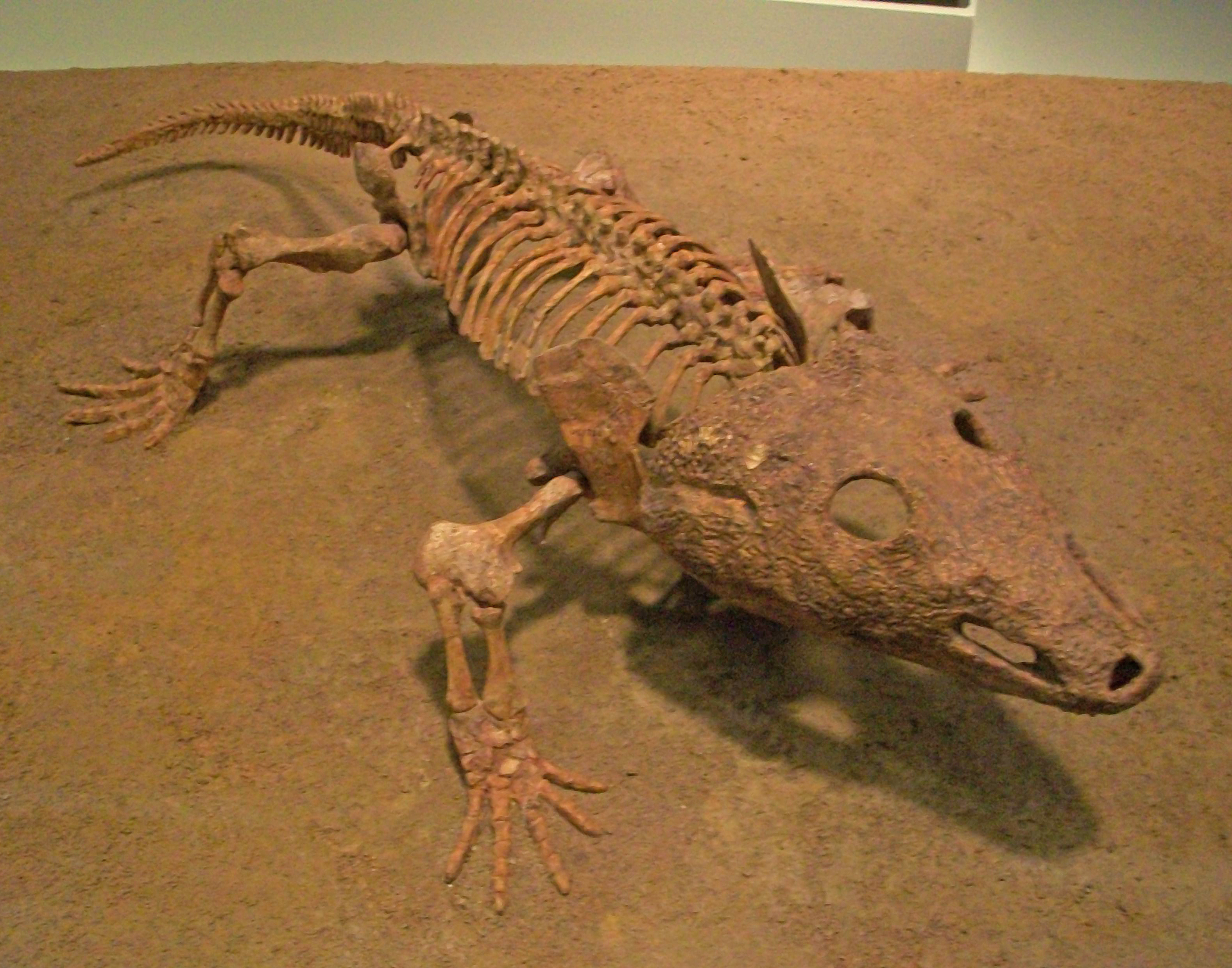 Skeleton of Acheloma cumminsi in the Field Museum of Natural History.